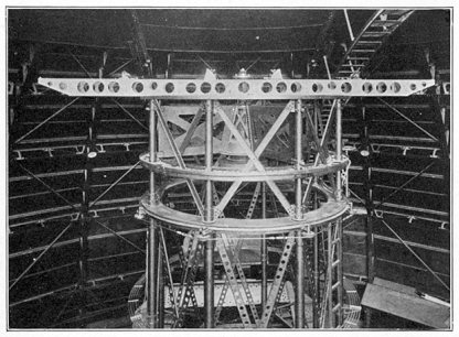 The caption reads: "Twenty-foot Michelson interferometer for measuring star diameters, attached to upper end of the skeleton tube of the 100-inch Hooker telescope. This instrument is now on display at the Rose Center of the American Museum of Natural History in New York" See [1].